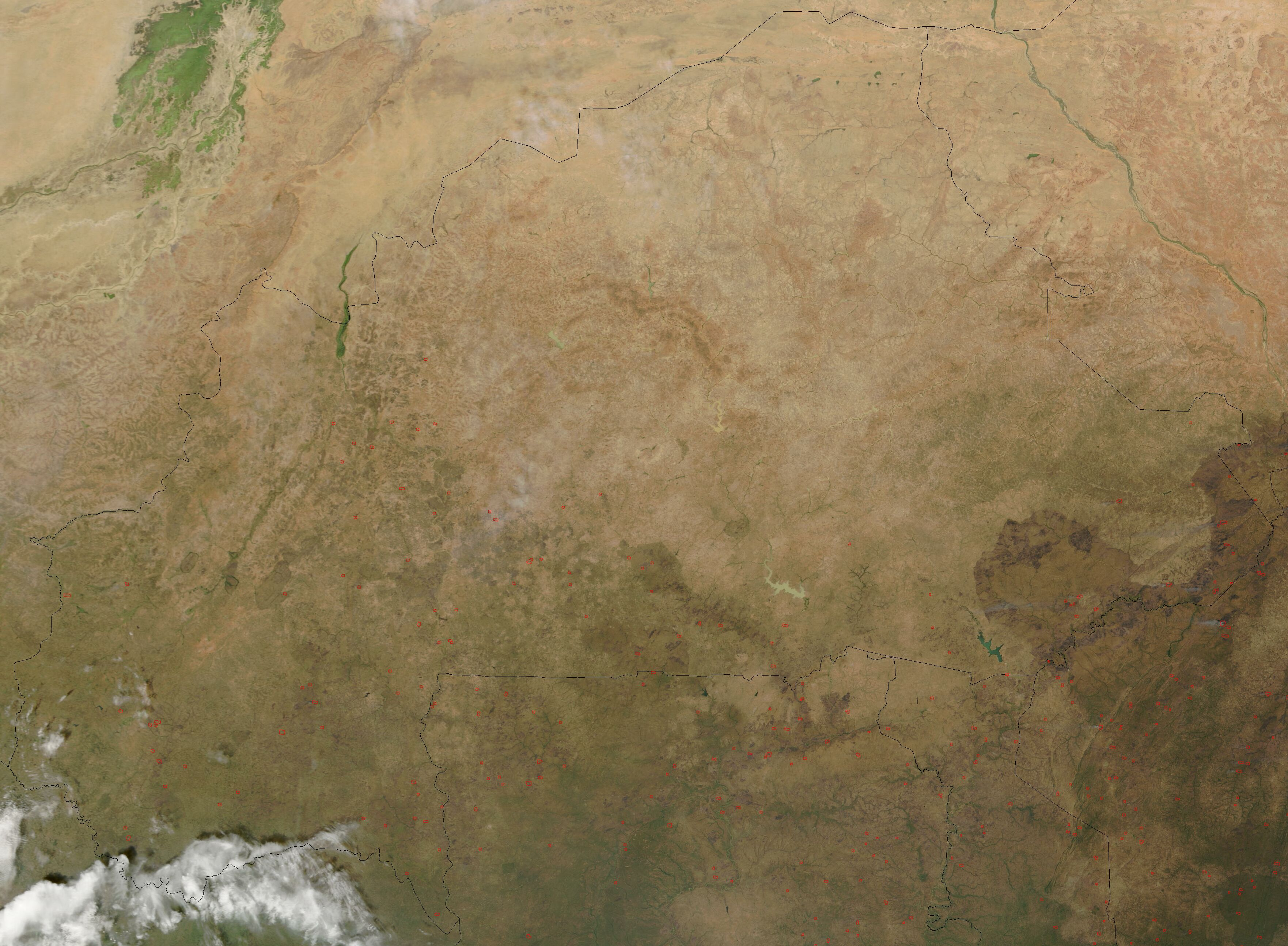 Satellite image of Burkina Faso in November 2002.